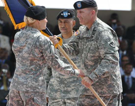 Gen. Dennis L. Via takes command